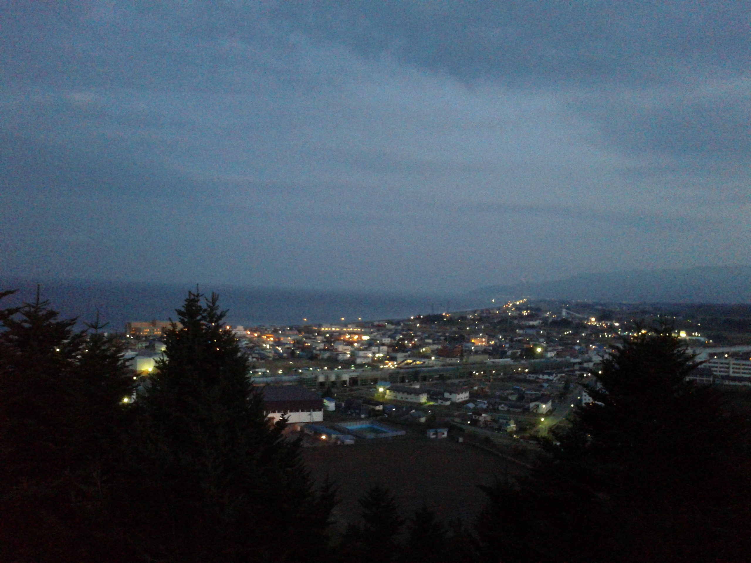 A night view of Kikonai, Hokkaido, facing south from Yakushiyama. Visible are the Shinkansen line and in the distance, smoke from the Shiriuchi Thermal Power Plant (知内発電所)